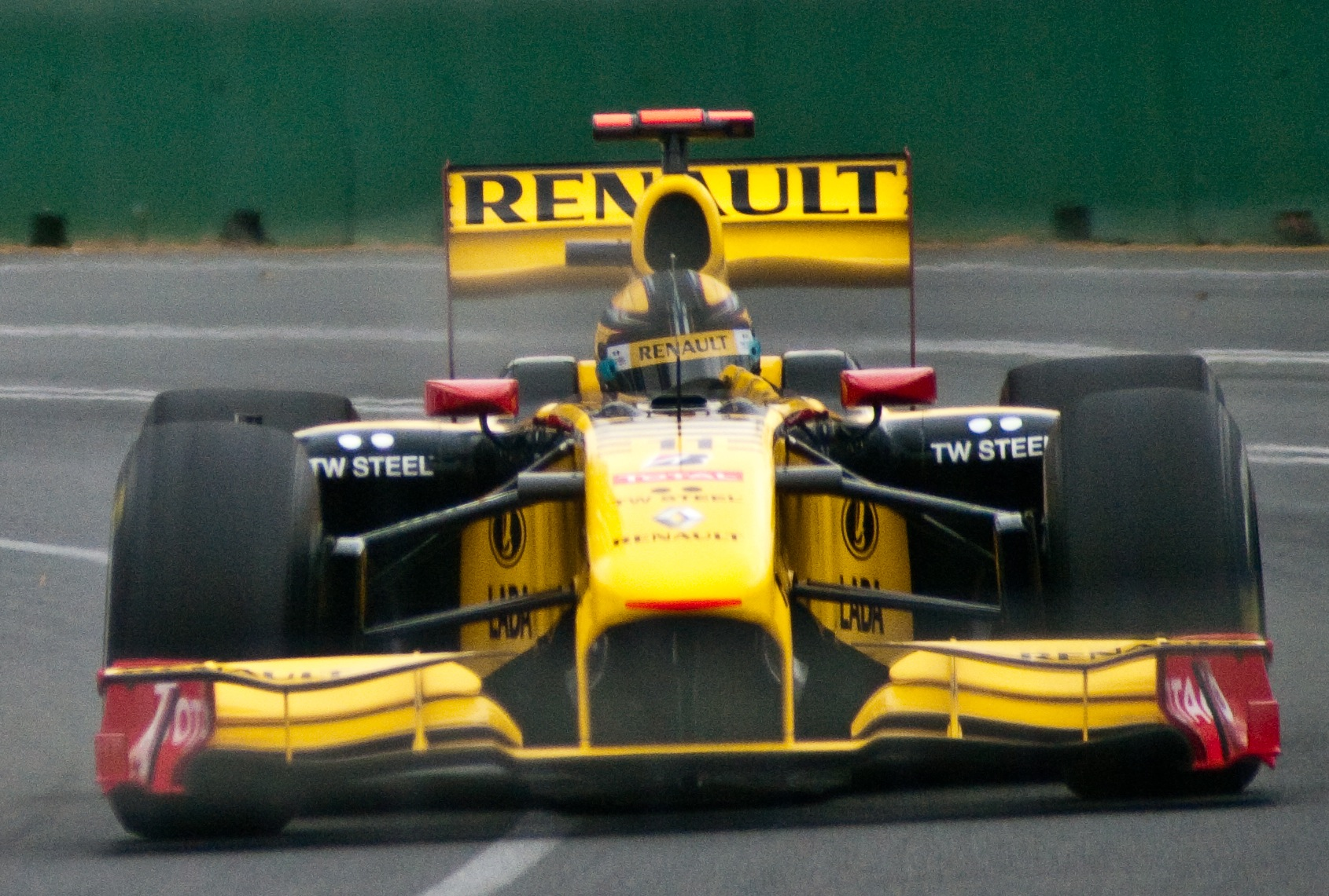 Robert Kubica driving for Renault F1 at the 2010 Australian Grand Prix.